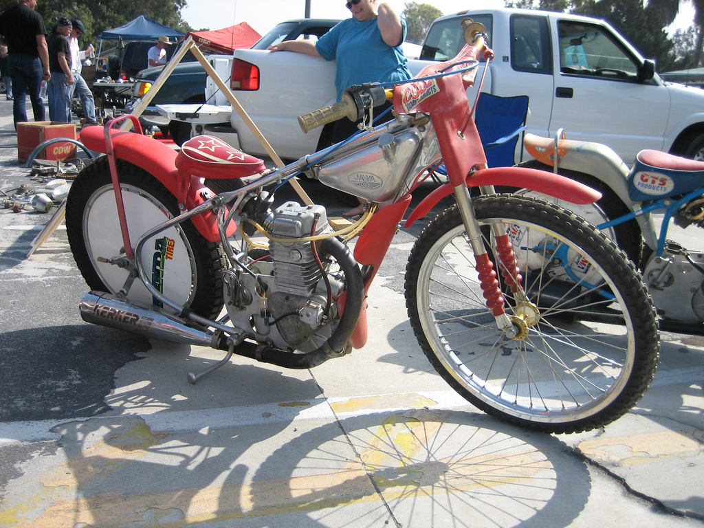 A Jawa speedway bike from the 70's